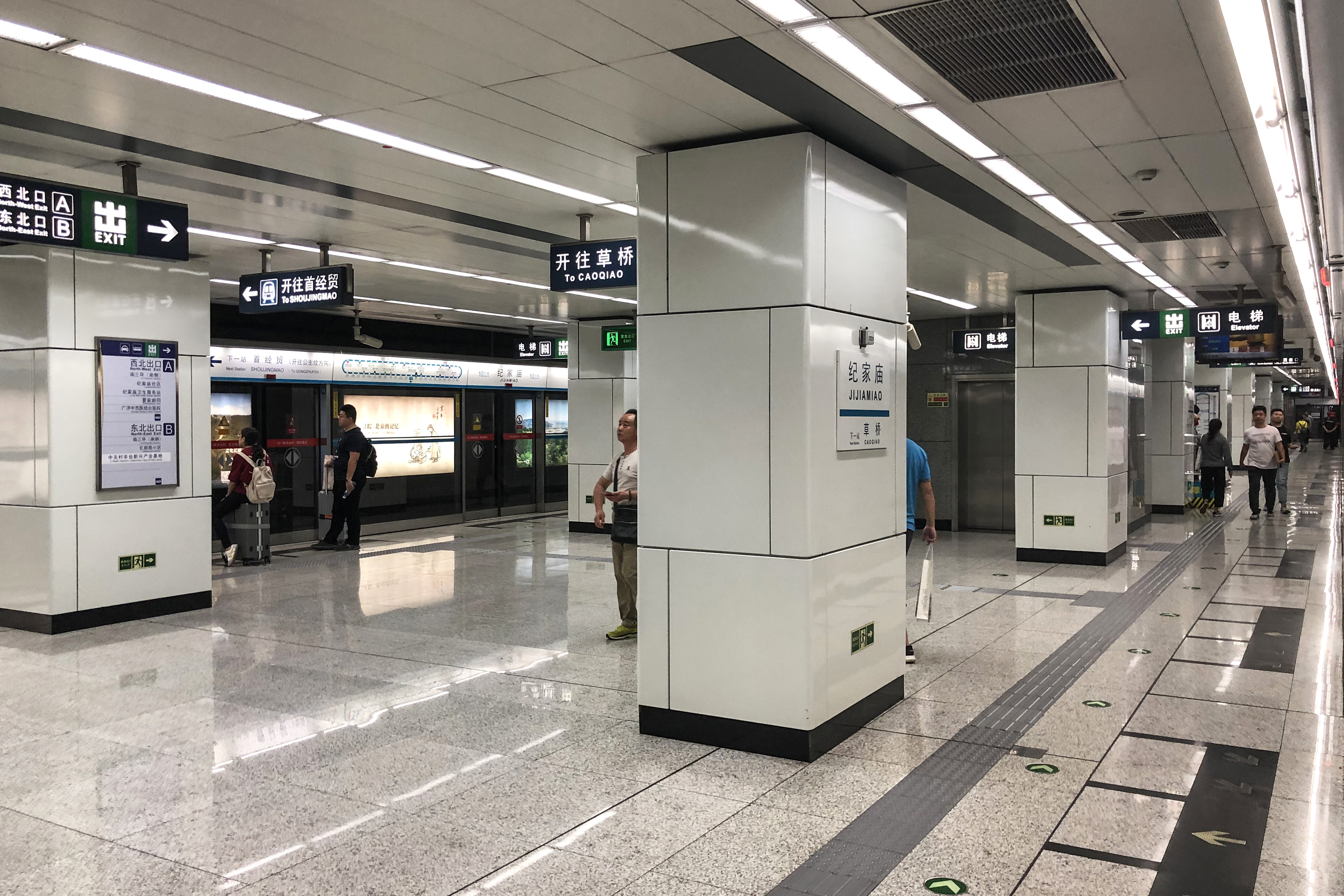 Taken on a exploration to PKX...